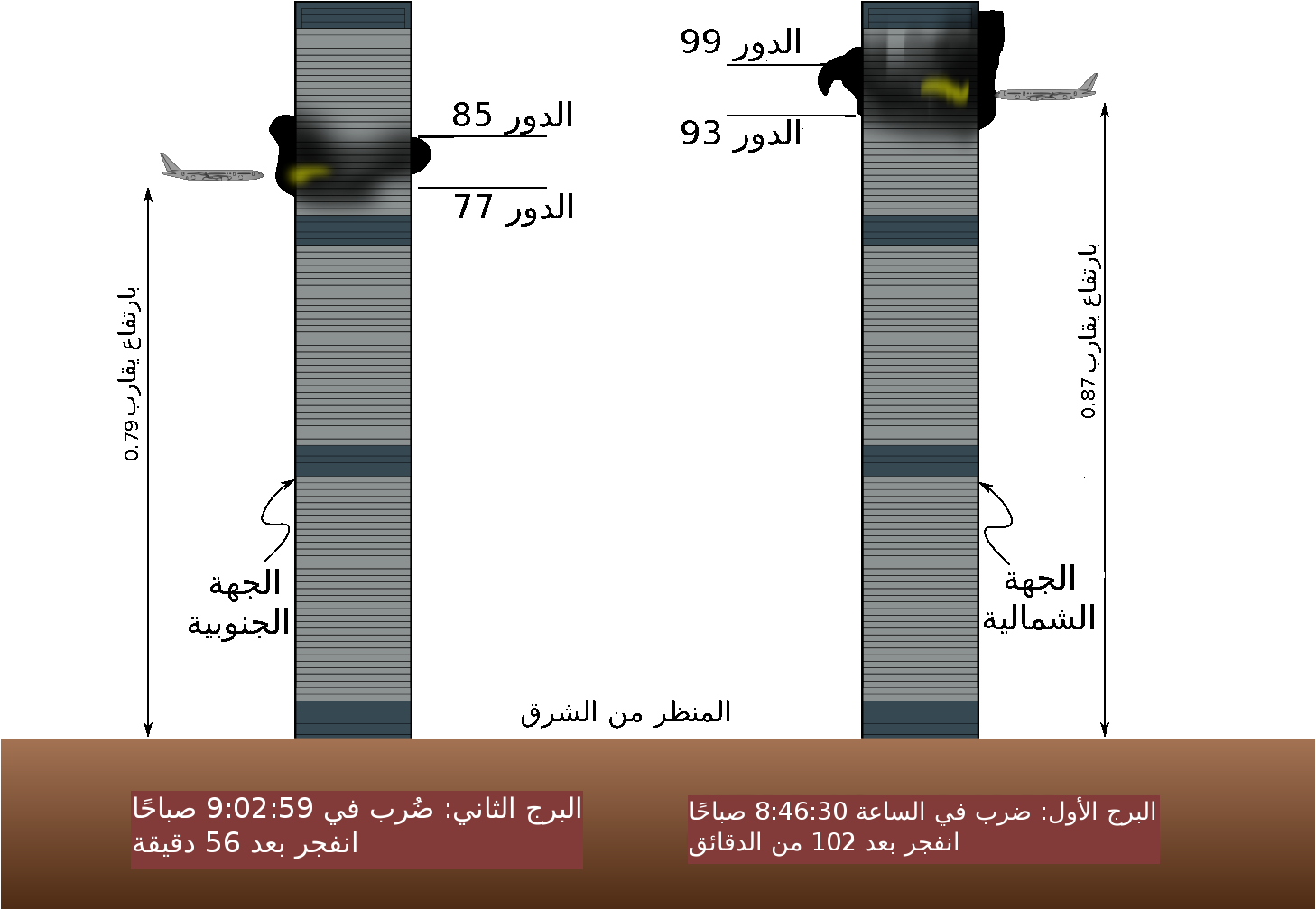 An illustration of the World Trade Center 9-11 Attacks with a horizontal view of the impact locations.